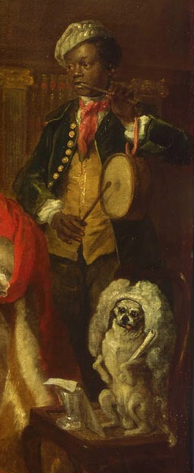 Detail of Hogarth's group portrait, Captain Lord George Graham, 1715-47, in his Cabin, showing a black servant